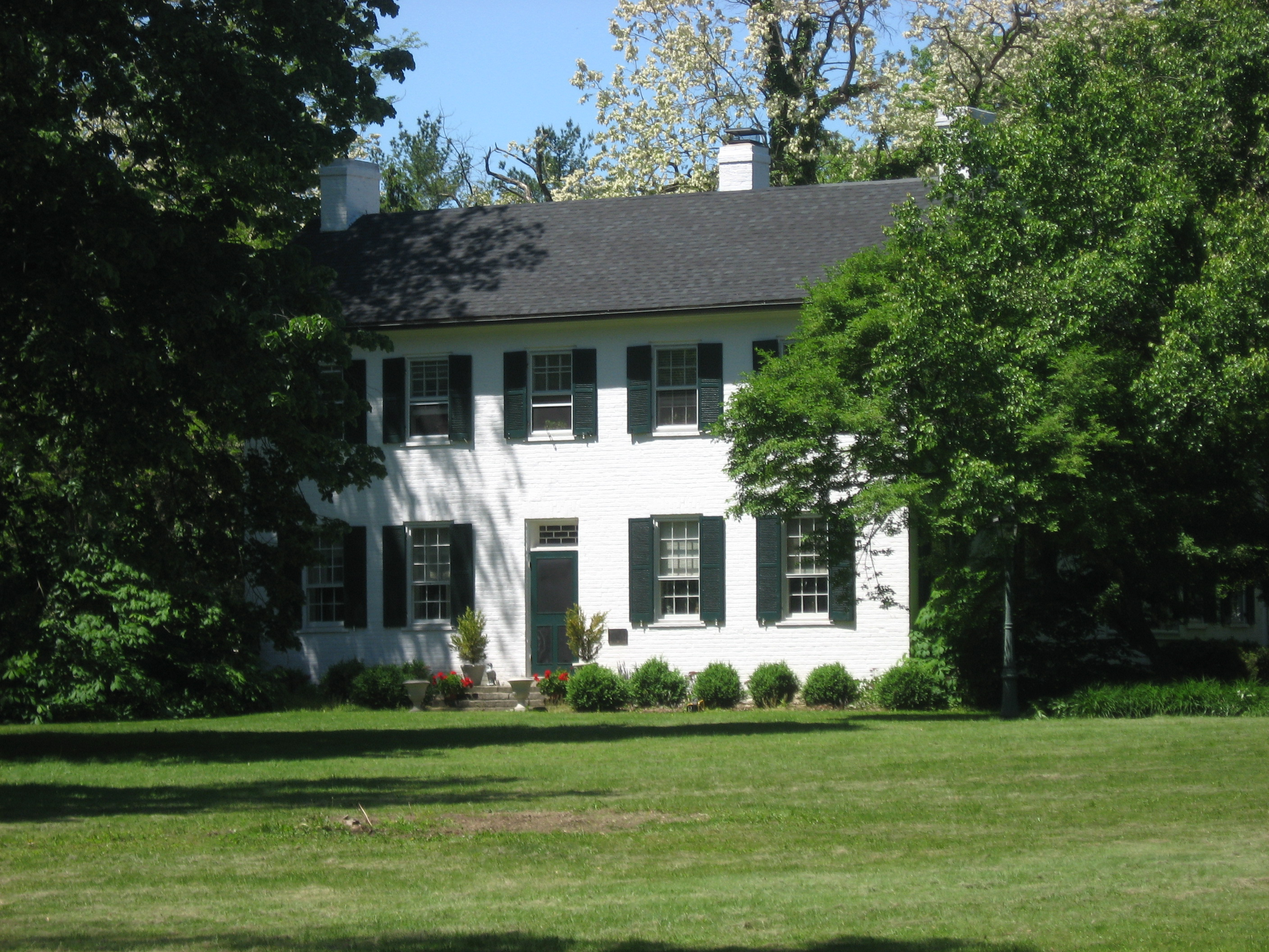 Front of the John Q.A. Ward House, located at 335 College Street in Urbana, Ohio, United States. Built in 1820, it is listed on the National Register of Historic Places.